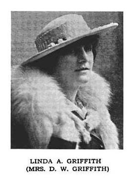 Linda Arvinson Griffith cira 1916